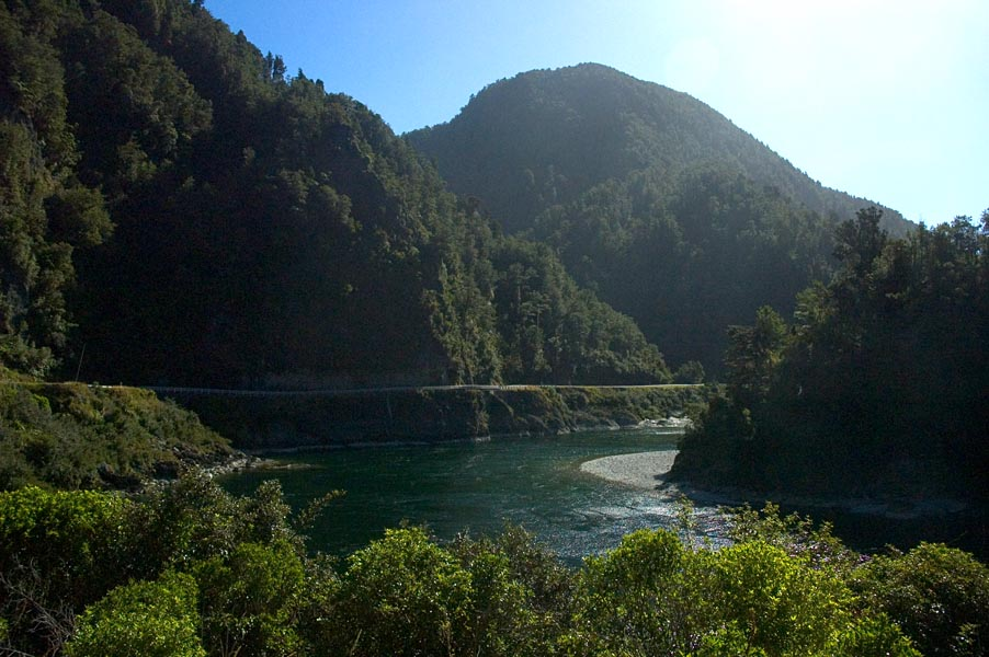 Image of Buller River, Tasman region, South Island, New Zealand